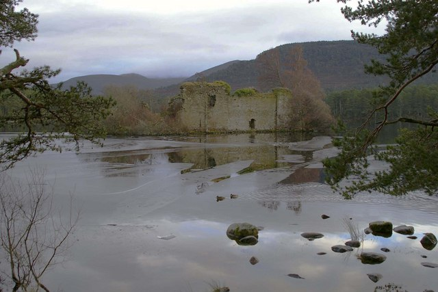 Loch an Eilean Castle